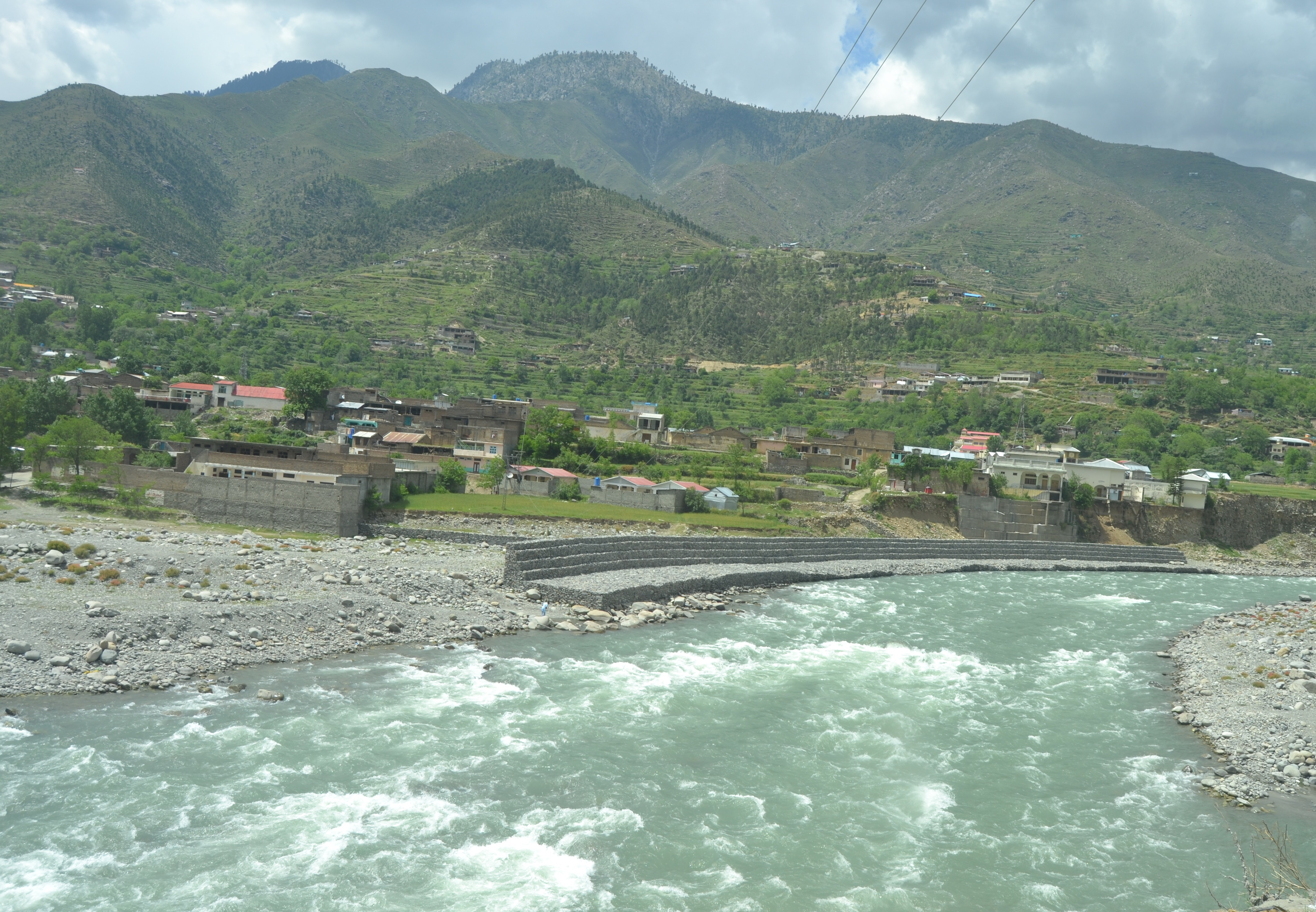 Swat River near Madyan.